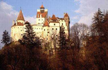 Bran Castle (view from south) near Braşov in Transylvania.